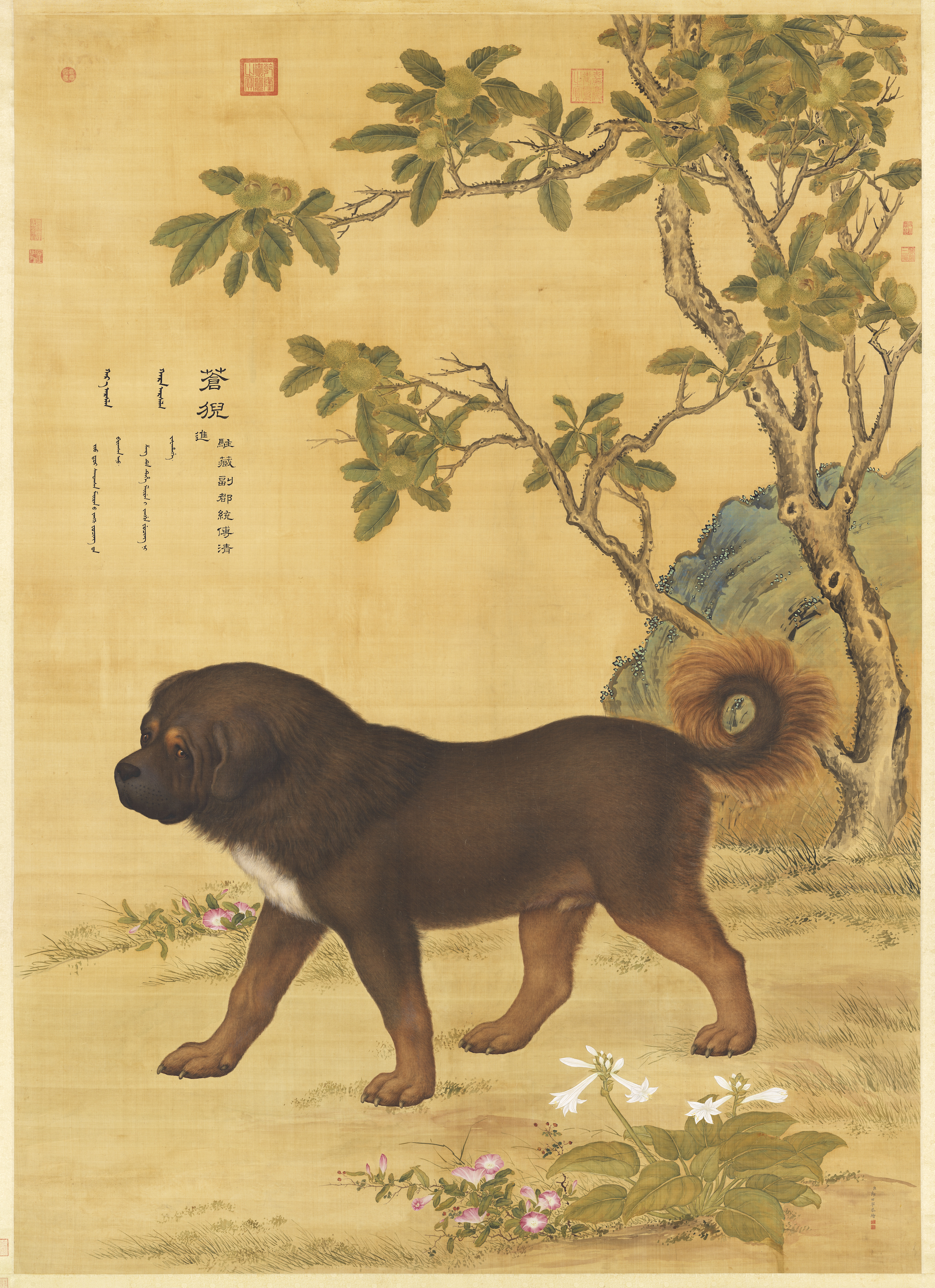 Picture of Cangni (苍猊), a Tibetan Mastiff, from Ten Prized Dogs Album.